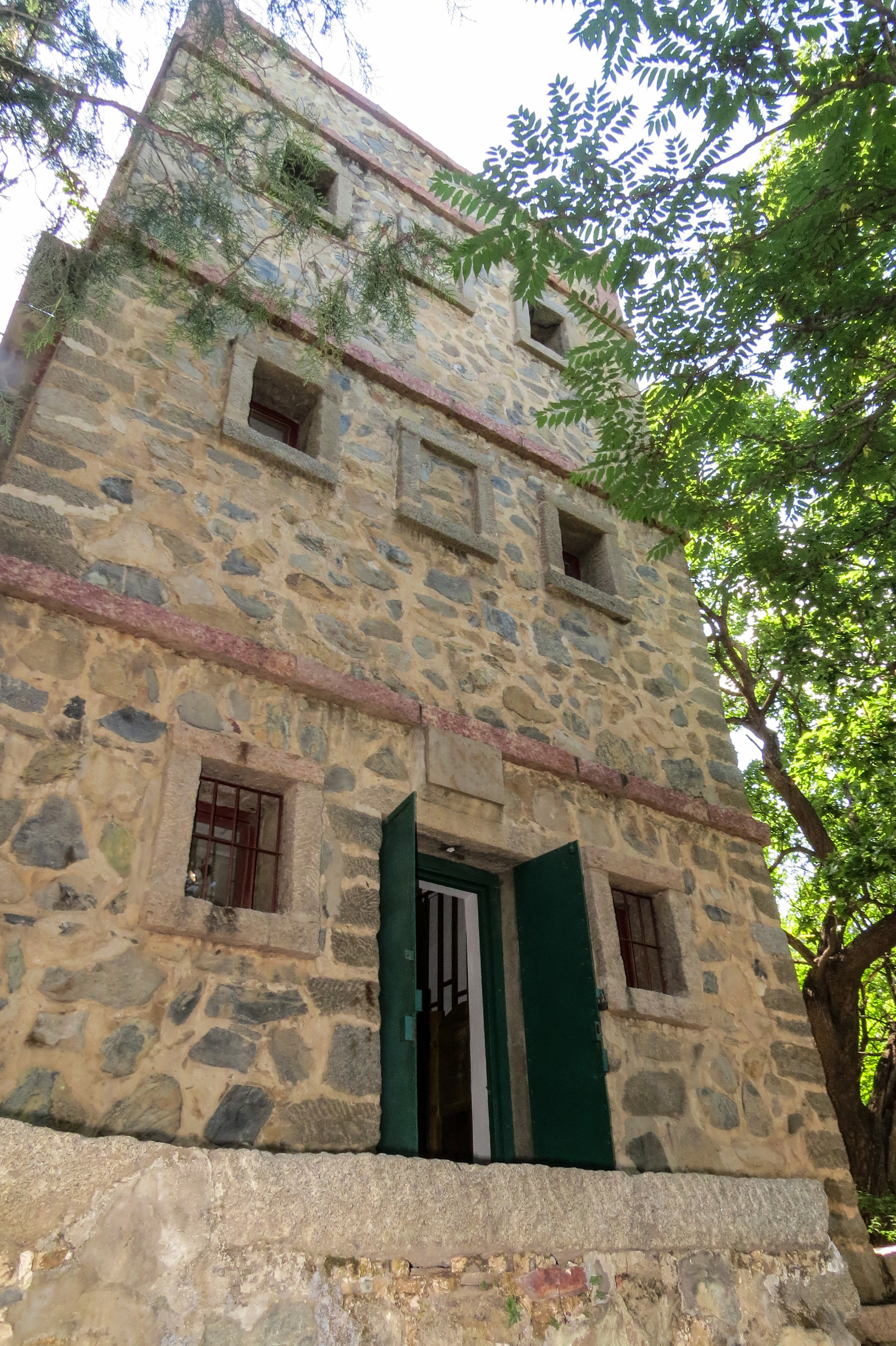 Where Dr. Bussière worked...